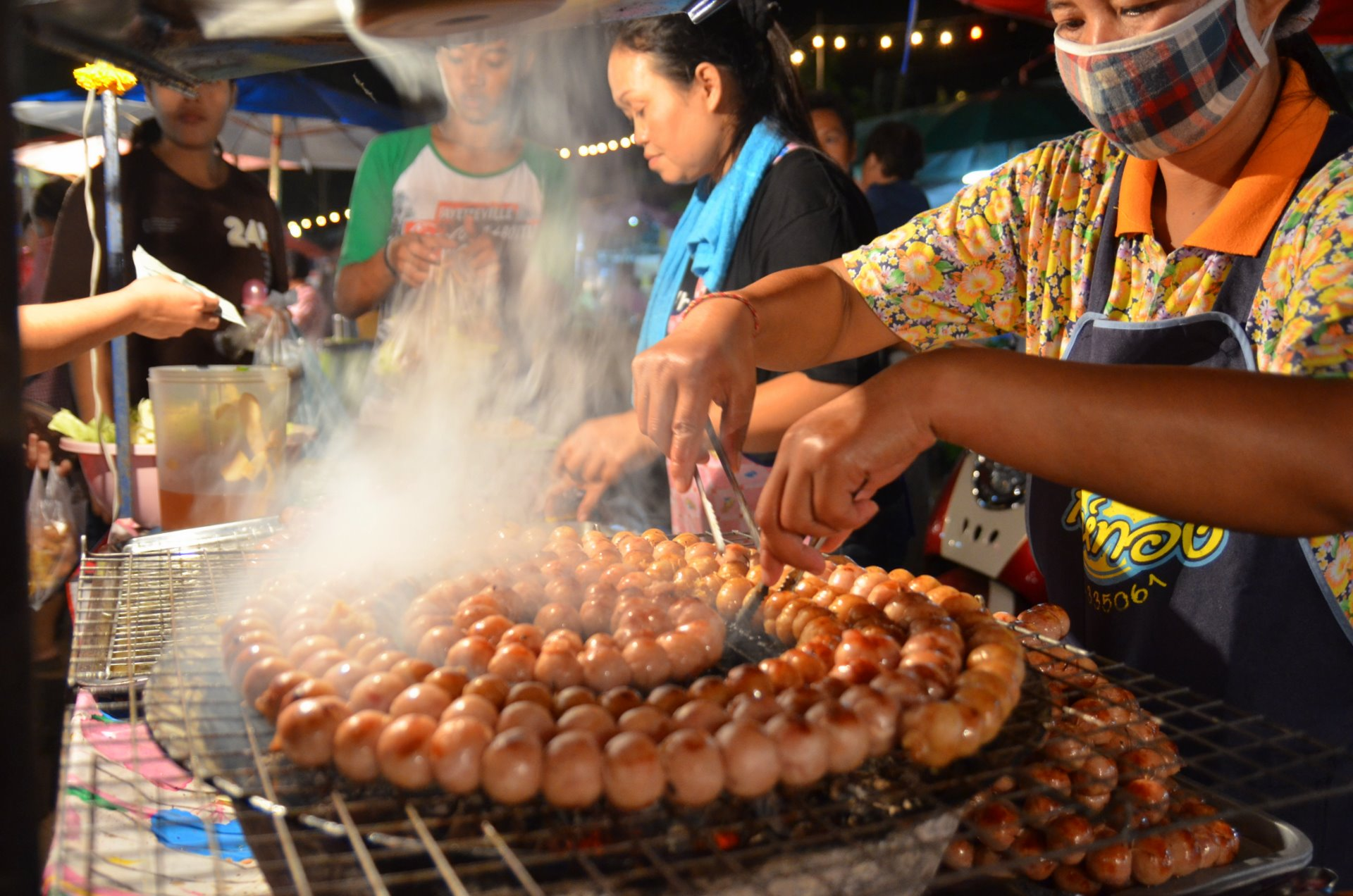 Sai krok Isan (Thai script: ไส้กรอกอีสาน): grilled fermented pork and sticky rice sausage, originally from the Isan region of Thailand.